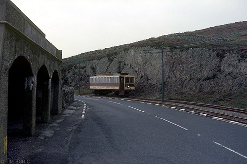 Howstrake Tram Stop, Winter Saloon Passes